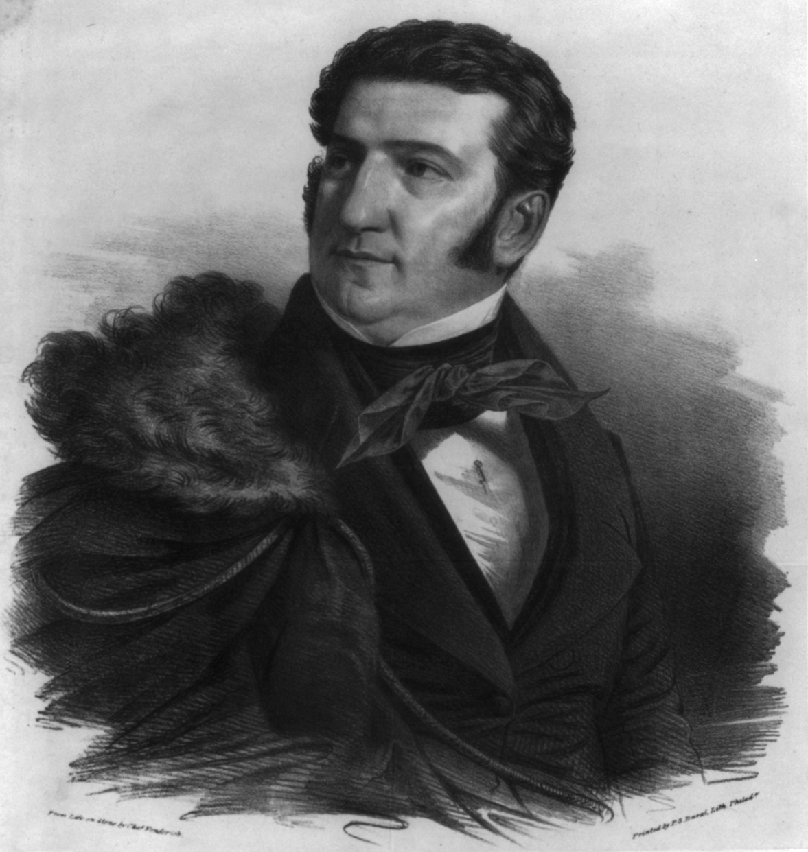 "A. Mouton, Senator from Louisiana". Engraved portrait of Alexandre Mouton.